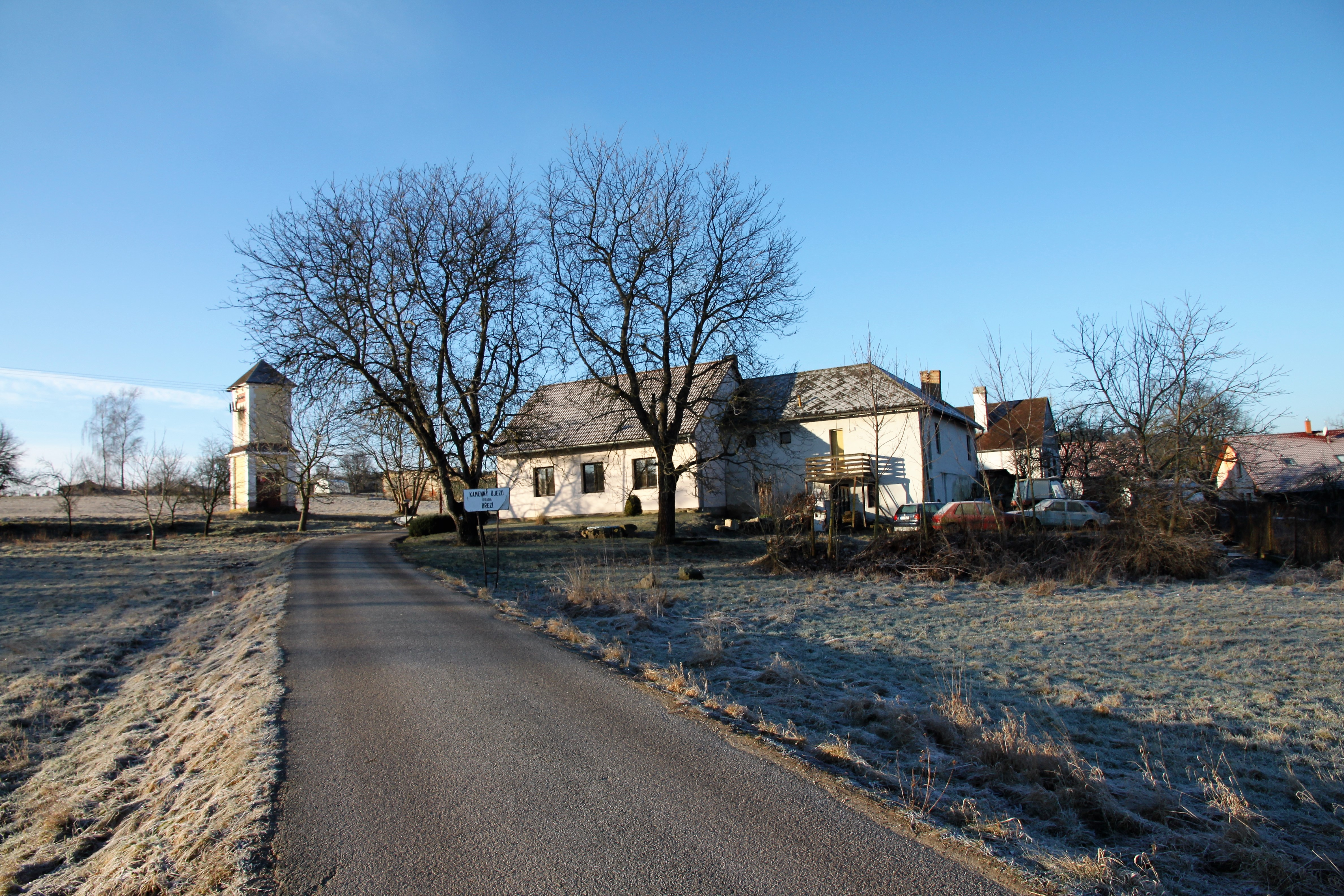 Kamenný Újezd, part Březí. České Budějovice District, Czechia.